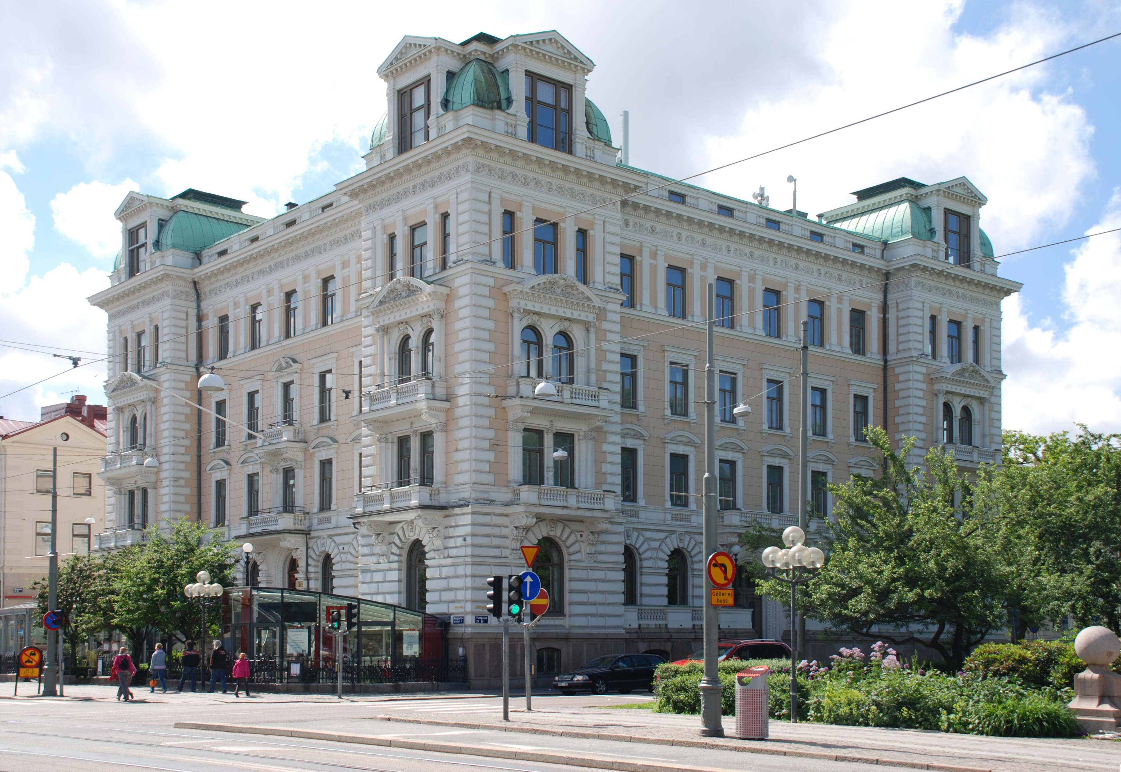 Kungsportsavenyn 1, quarter 43 Borganäs in city part Lorensberg in Göteborg.